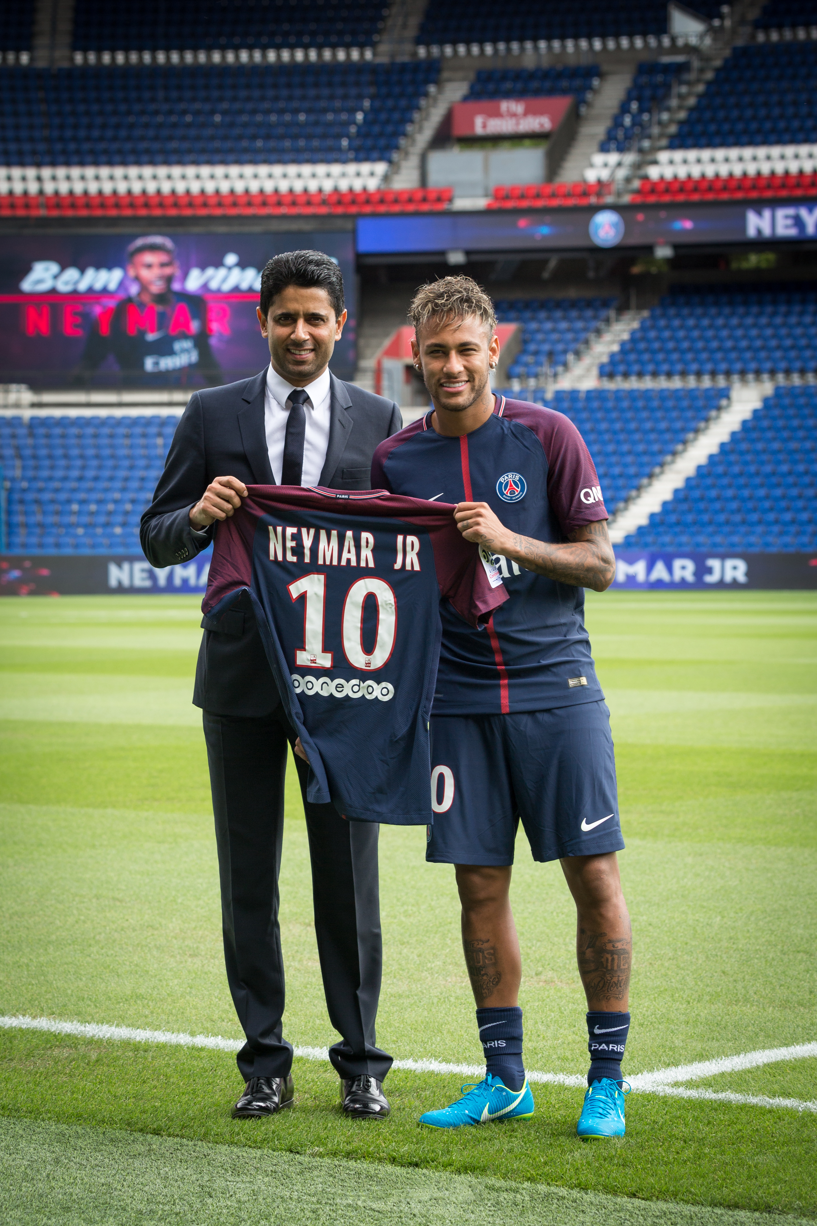 Neymar Jr official presentation for Paris Saint-Germain, 4 August 2017.